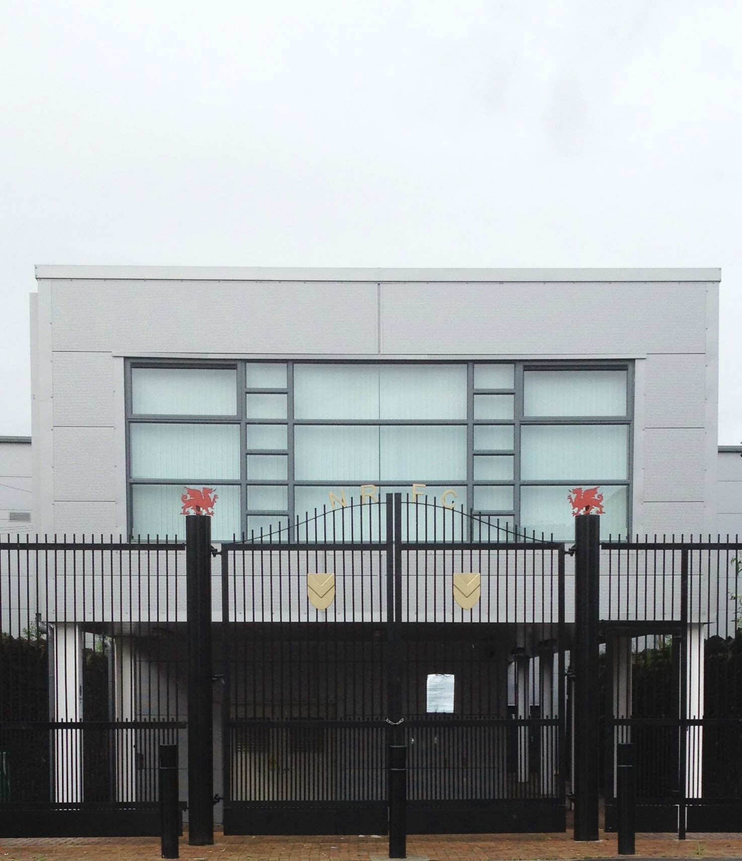 Rodney Parade East Gate, Corporation Road, Newport.jpg